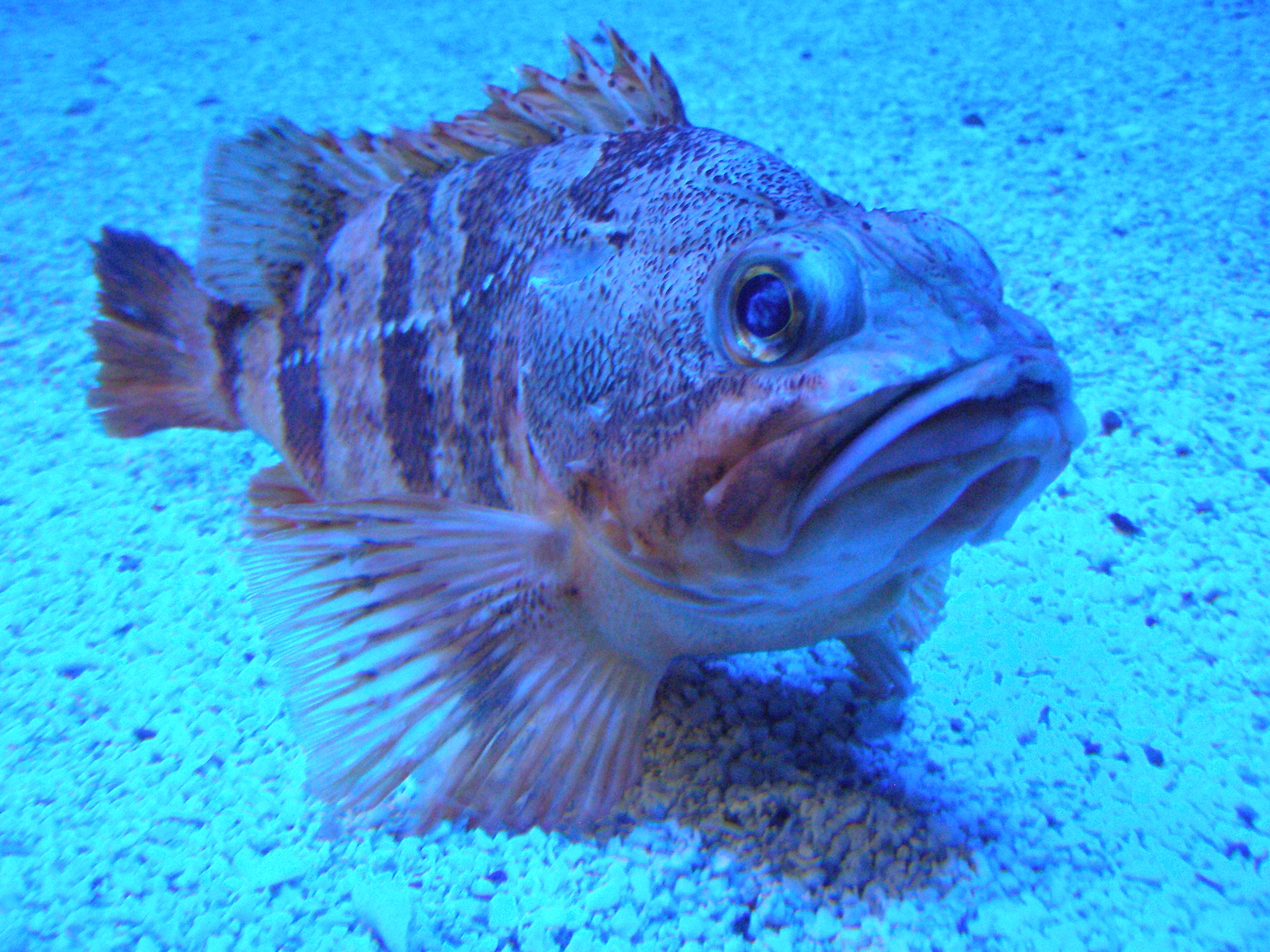 Aquarium of Genoa